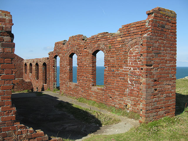 Brick remains Above the abandoned coastal quarries, the roofless works now stand open to the elements. Built from locally produced brick, the former storerooms and engine sheds have stood idle since the 1930s.